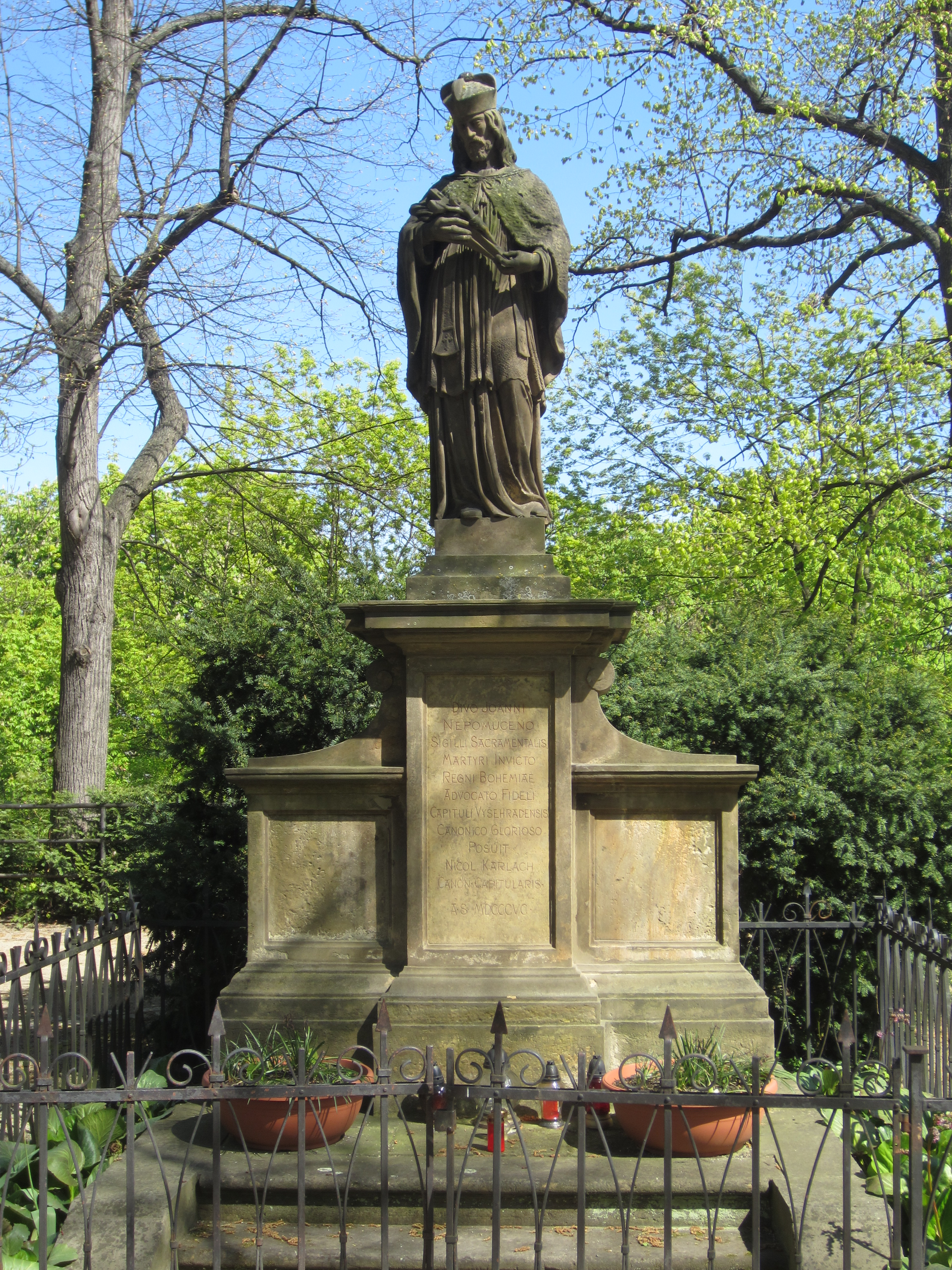 Prague, Czech Republic, April 2016